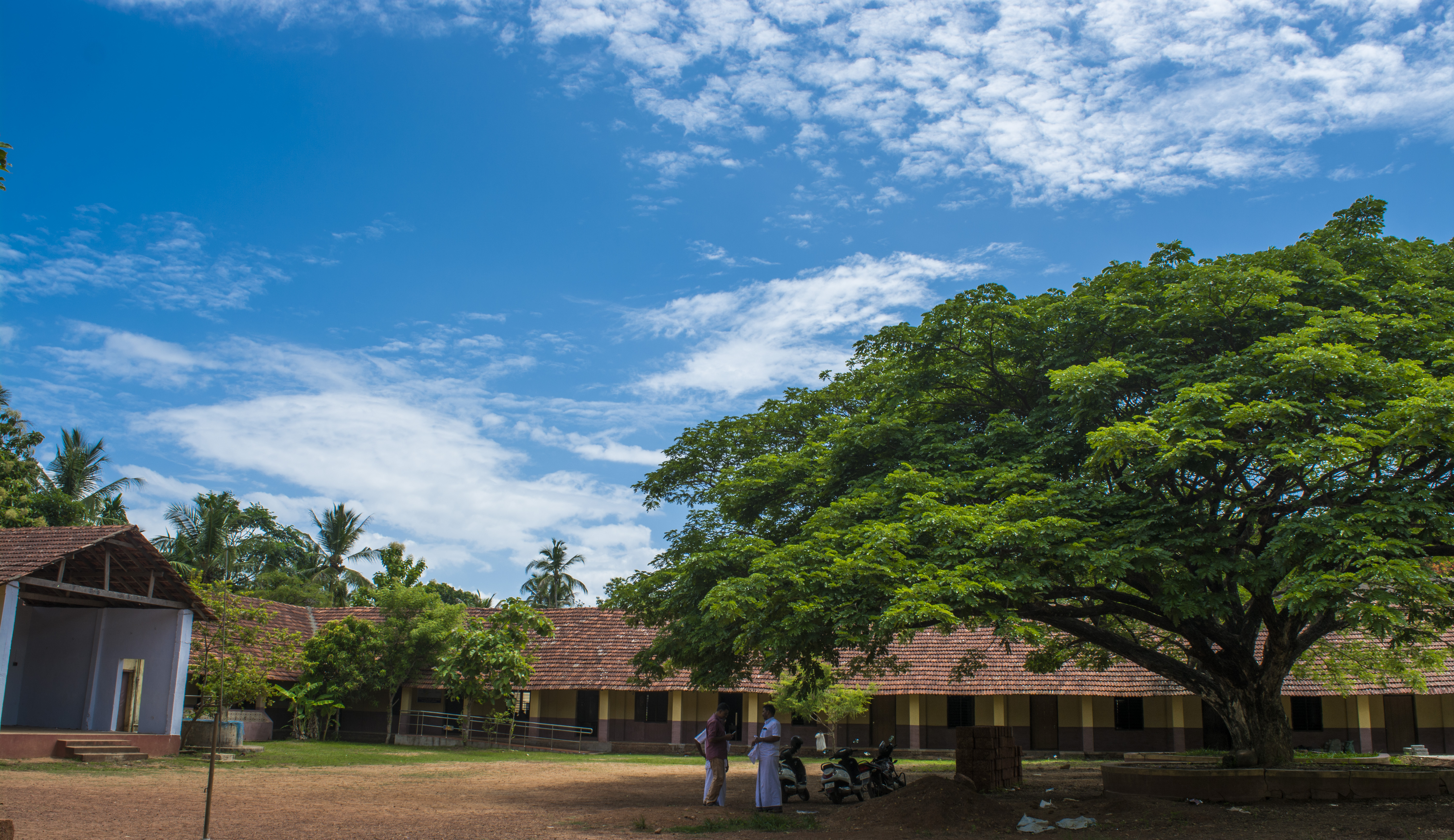 Muzhappilangad Higher Secondary School